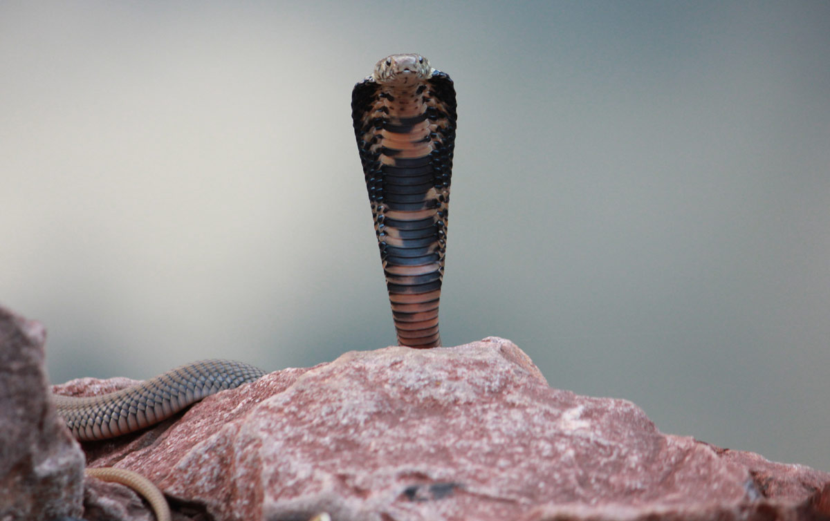 Mozambique spitting cobra (Naja mossambica). Soutpansberg, South Africa.